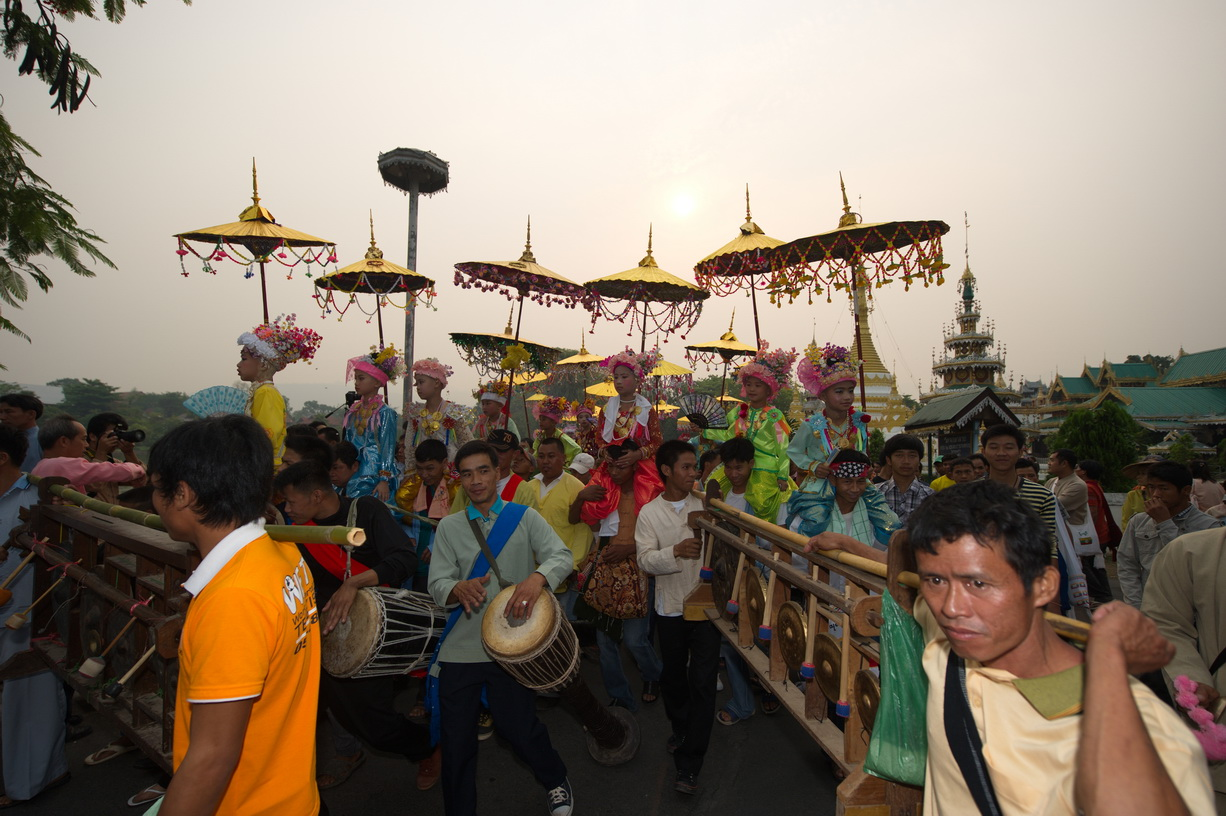 Poy Sarng Long is called in some areas as “Poy Look Kaew” (crystal strands) or “Poy Noi.” It is a cerebrating ceremony in the tradition of ordination of novices. Shan people call the person who is to be ordained as “Sarng Long.” - Poy Sarng Long tradition is organized in order to provide opportunity for children to study Dharma according to the teachings of the Buddha. It is believe that people involved will gain merit from this tradition. It is normally organized during the period of March-April of each year (During student summer vacation). Villagers make appointments among themselves to have their children to be ordained as novices on the same day. The children who will be ordained as novices are dressed and ornamented with invaluable ornaments. The children are ordained at the temples where the sponsors have faith. -The process of Poy Sarng Long tradition comprises 3 days. The first day is called “Hae Sarng Long Day.” On this day all the novices to be ordained will join the ceremony of Hair-shaving but not shaving the eyebrow (According to the belief of Myanmar they do not shave the eyebrow). They will put on makeup and dress beautifully according to the tradition. At this stage the novices who will be ordained are called “Sarng Long.” They will be taken to meet their respectful senior relatives to receive the precepts and blessed from them. The second day is called “Hae Krua Loo Day.” Sarng Long (the novices to be ordained) will be brought to parade in public. Sarng Long may ride a horse or if there is no horse the Sarng Long, he will ride on the shoulder of a man. In the evening there will be a ceremony of heart for Sarng Long and there are various entertainments according to the Shan tradition at night. The third day is called “Kharm Sarng Day.” It is the day of the novices ordination which takes place in the temple.